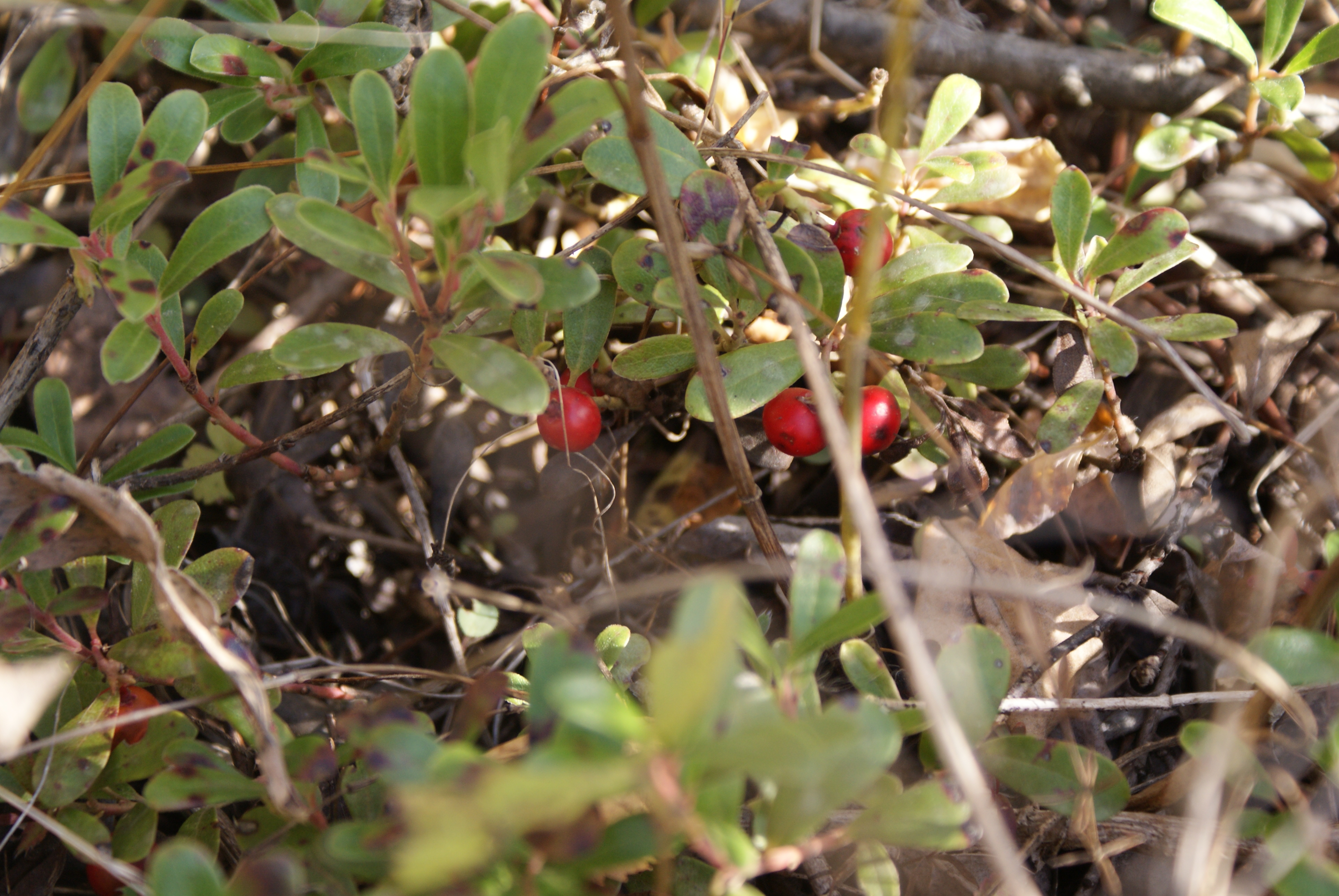 uva-ursi, Bear's Grape, Bearberry, Hog Cranberry, Kinnikinick, Mealberry, Mountain Box, an autumn picture near South Saskatchewan River near Saskatoon Sandberry Nature Canada Preservation Conservation Endangered Species Canada